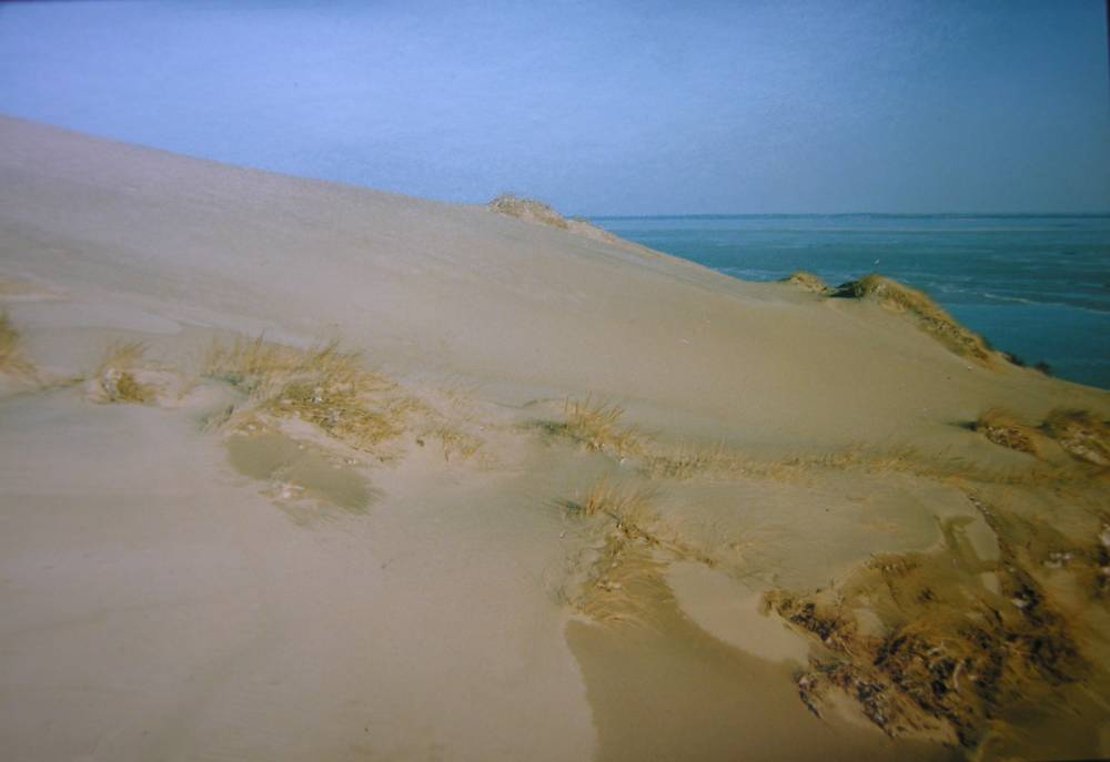 The Curonian Spit between Pervalka and Juodkrantė. By Audrius Meškauskas.